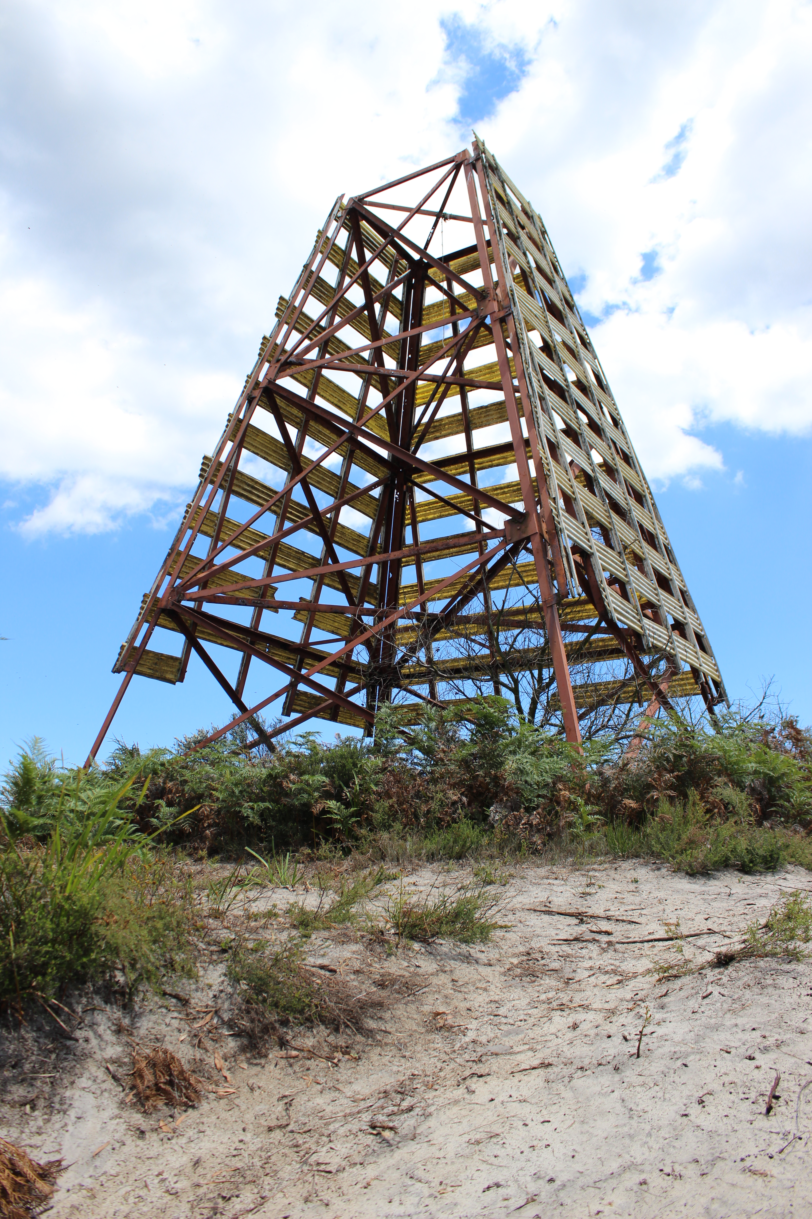 On top of the Pinnacles.